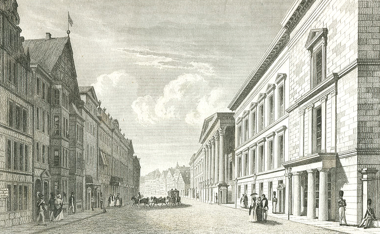 Steel engraving by L. Hoffmeister after a drawing by Georg Osterwald